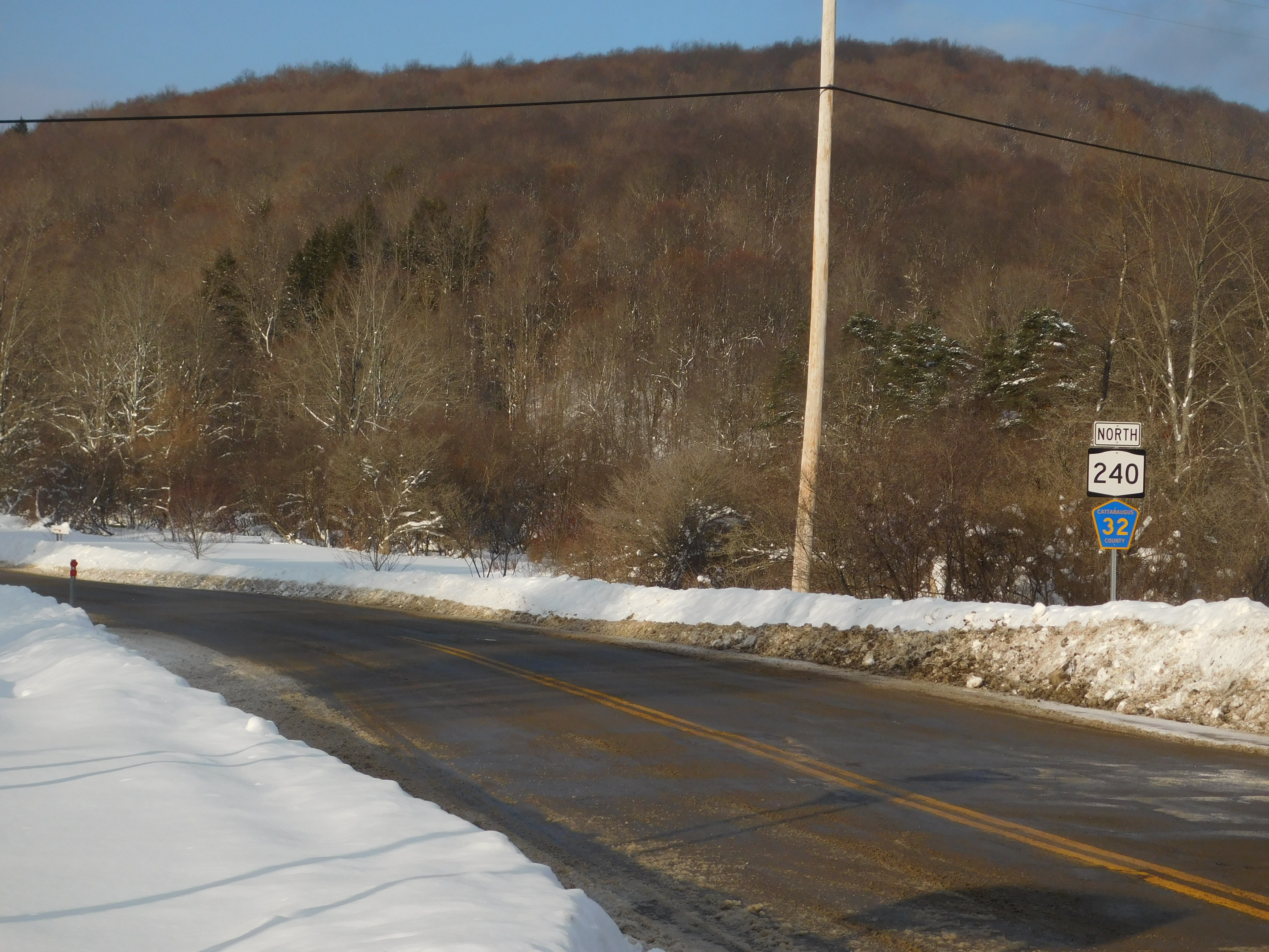 NY 240 and County Route 32 at the junction with NY 242 in the Town of Ellicottville, New York.